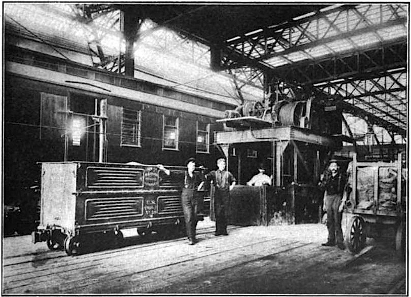 Original caption: "ELECTRIC CARS FOR HAULING MAIL. Chicago Post Office Subway." The 2-foot (610mm) gauge Illinois Tunnel Company U.S. Mail car is on tracks the platform of Grand Central Station in front of a Pere Marquette U.S. Mail car, with an elevator down into the freight tunnels in the middle background. The tunnel mail car is a Bettendorf convertable car, see William P. Bettendorf's U.S. Patents 1,036,786, 1,039,638, 1,062,689 and 1,032,348 for drawings and descriptions of the car. Location inferred by comparison with other photos of the train shed interior, maps of the tunnel, and Google's photos of the former station site.